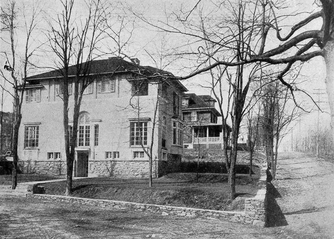 Mohegan Heights, New York.